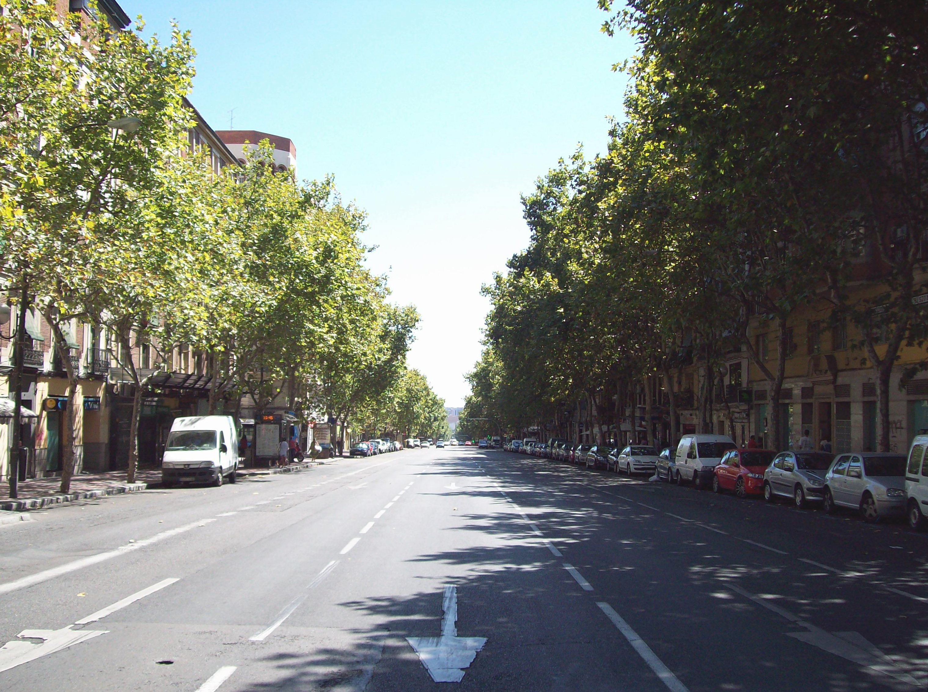 View from Paseo de las Delicias (street) in Arganzuela district in Madrid (Spain).